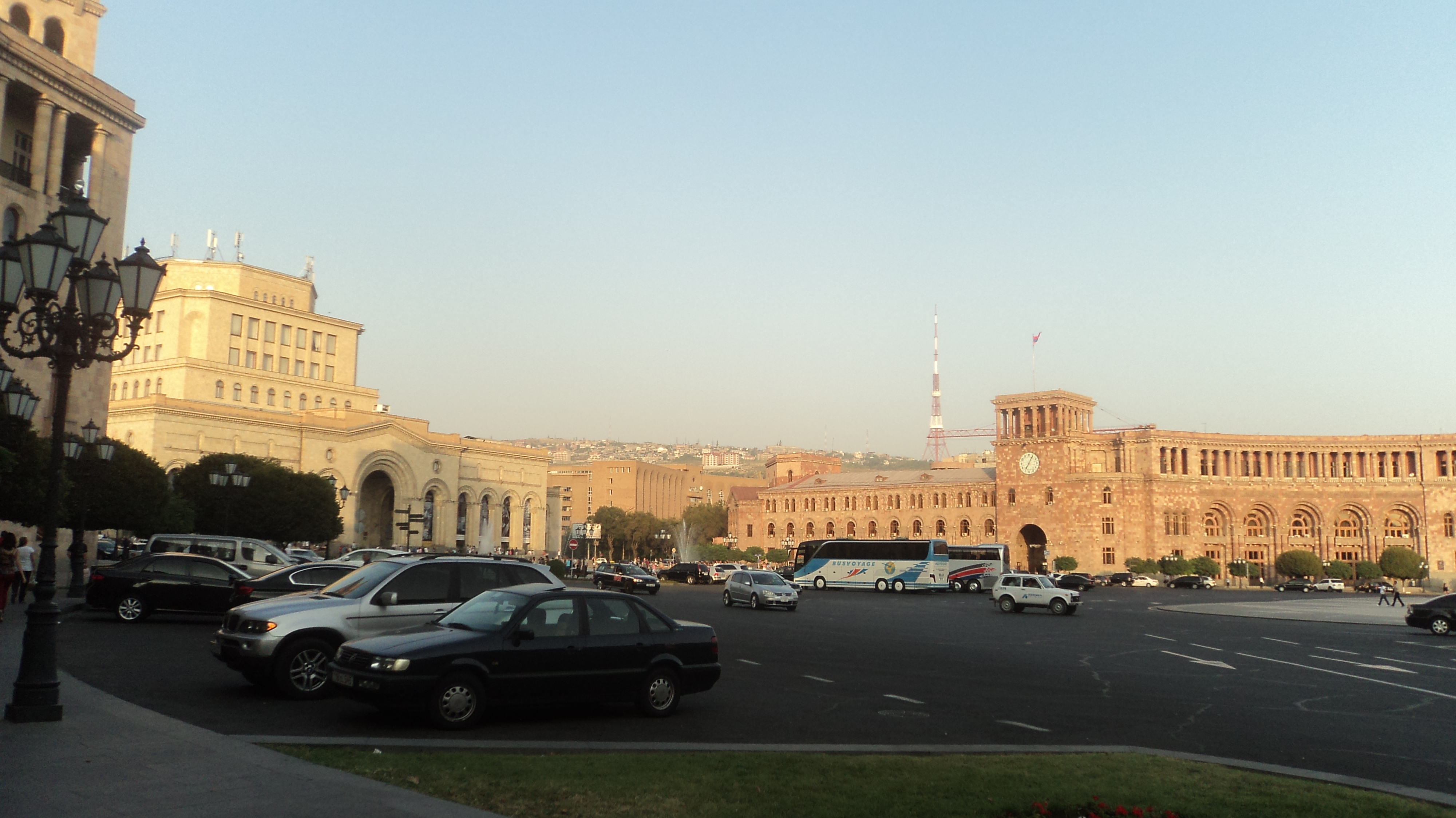 Երևանի Հանրապետության հրապարակ